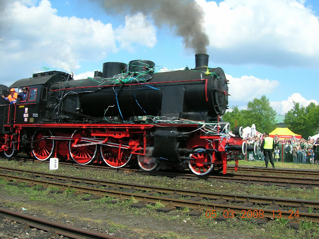 Wolsztyn train station